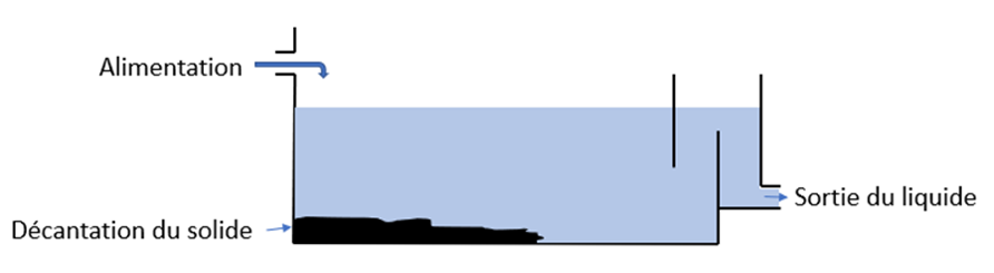 Solid - liquid decantation